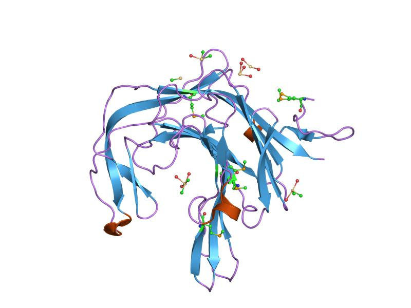 Cartoon representation of the molecular structure of protein registered with 1dyp code.